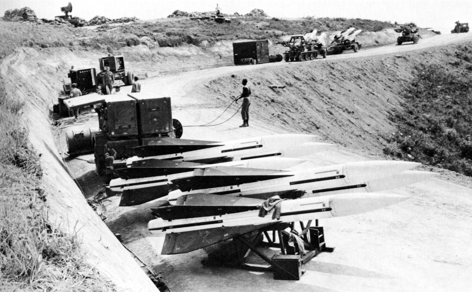 HAWK missiles move to new positions on Hill 327 from the airfield. The missiles are from Battery B, 1st LAAM Battalion.